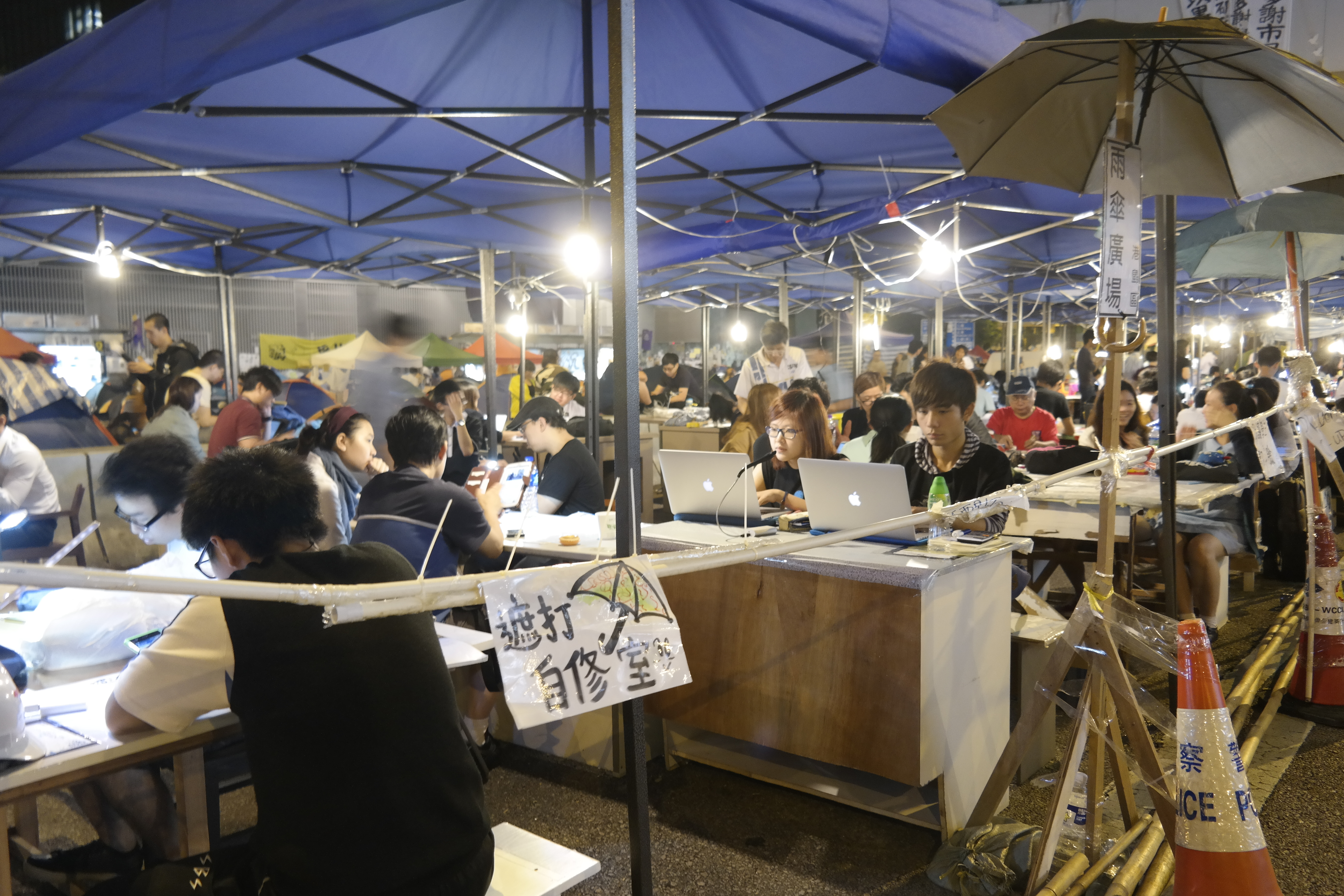 self-study room for protestor- students